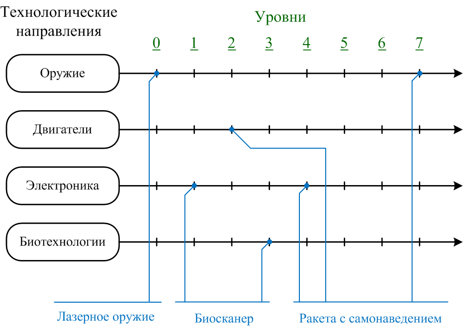 Branches tech tree